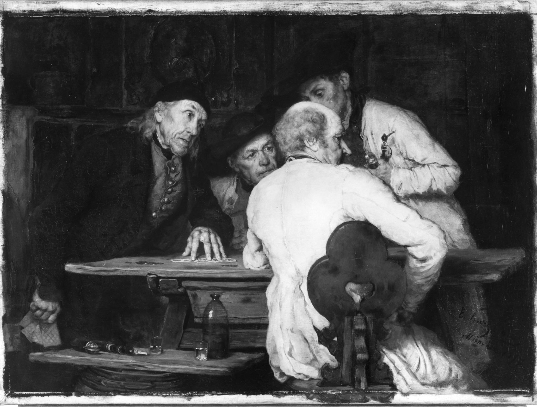 Four elderly German men are playing cards. One, seated with his back to the viewer, turns his head away from his companions who, in annoyance, begin to rise to their feet. This painting exhibits Kurzbauer's adroitness at characterization.